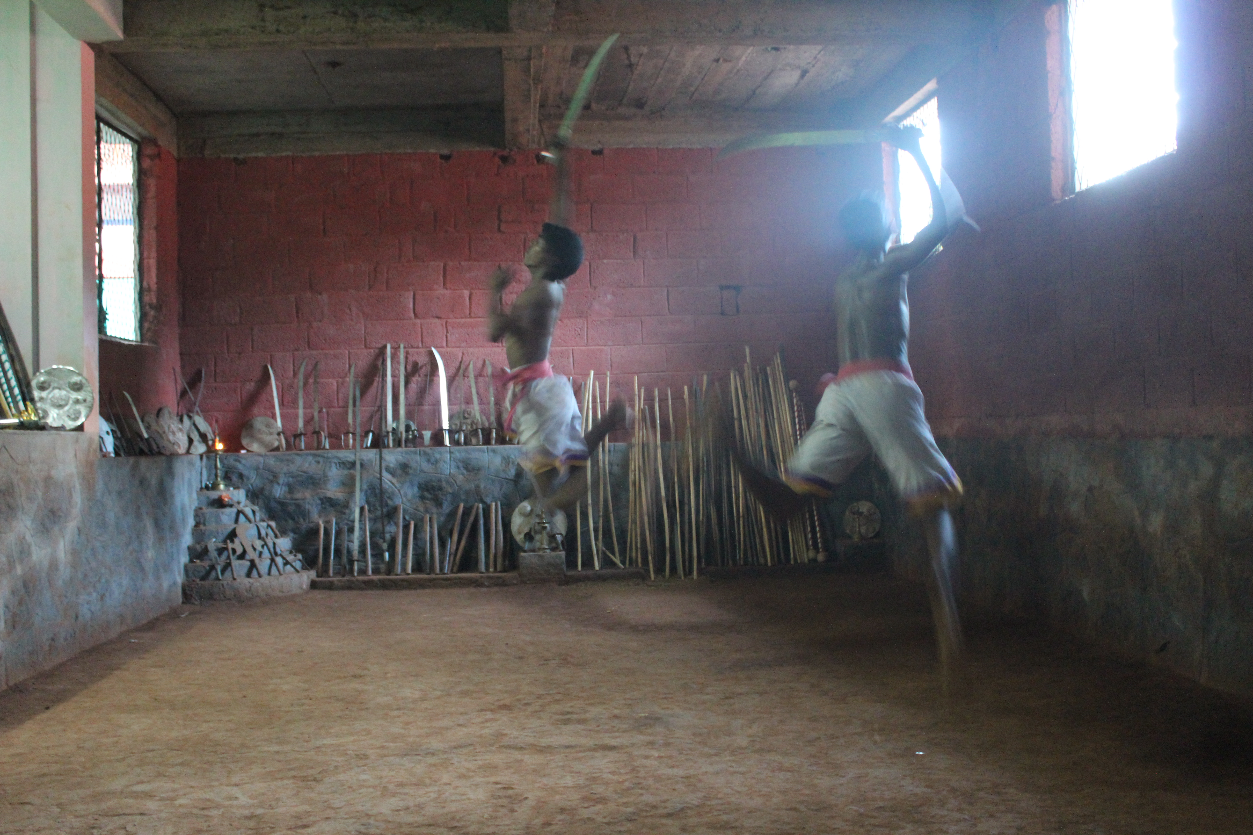 Kalaripayattu performance 3